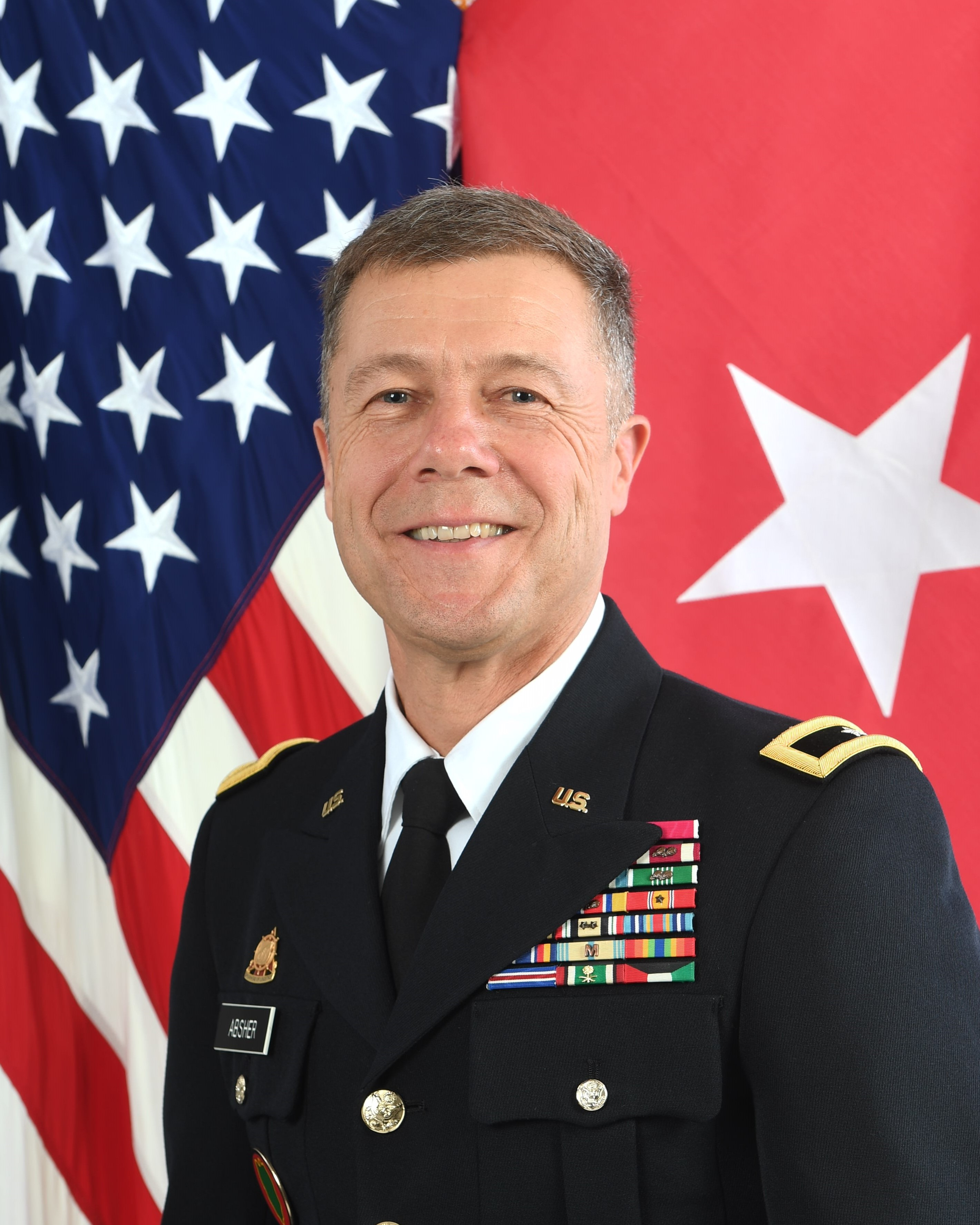 BG Donald B. Absher